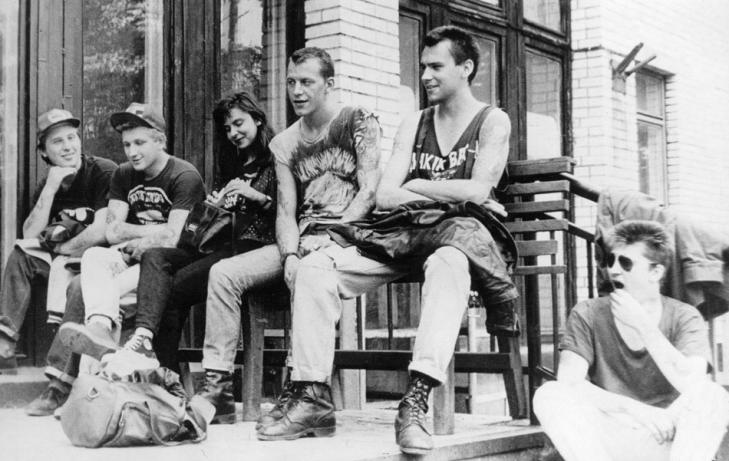 BEEROCEPHALS